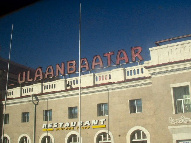 Ulaan Baatar Train Station, Mongolia Photo by Matthew Mayer, 2005, original here For other images related to this subject, see gallery Ulaanbaatar.